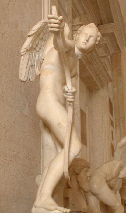 Amor stringing his bow, Roman copy after Greek original by Lysippos. right side